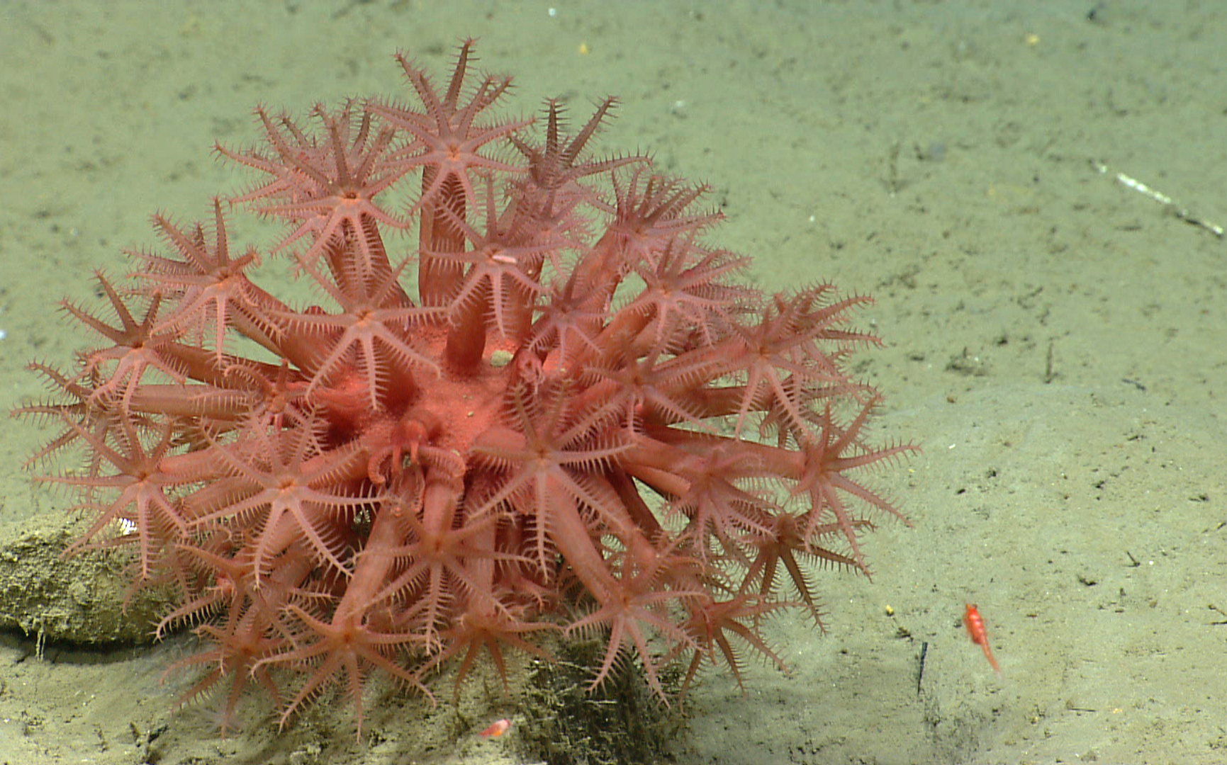 Anthomastus coral in Oceanographer Canyon.